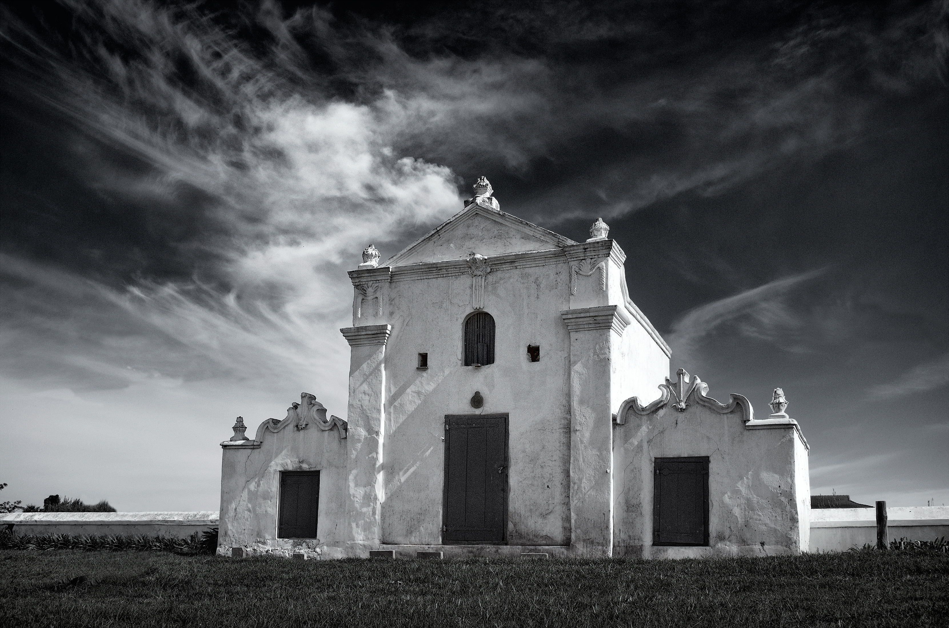 Old farm house in Somerset West This media shows a South African Protected Site with SAHRA file reference 9/2/083/0013/1.